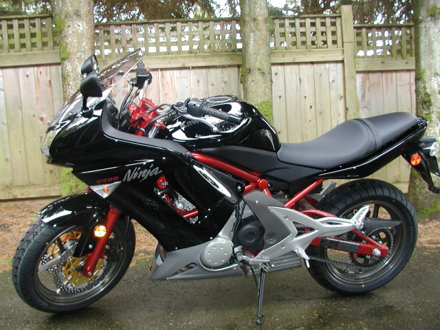 Side view of the Ninja 650R motorcycle, 2006 model year.